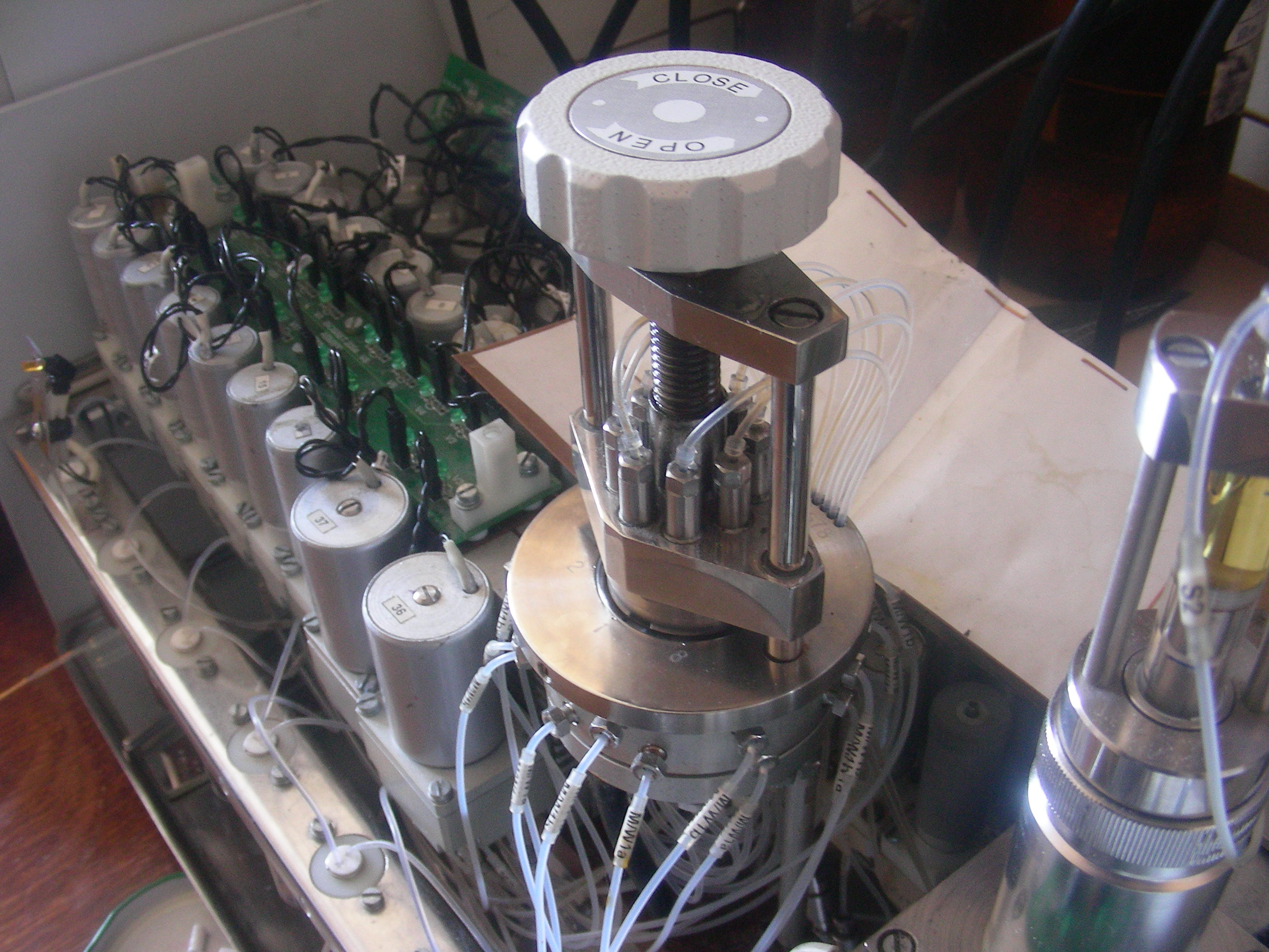 Oligonucleotide synthesizer